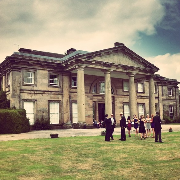 Longford Hall, Shropshire